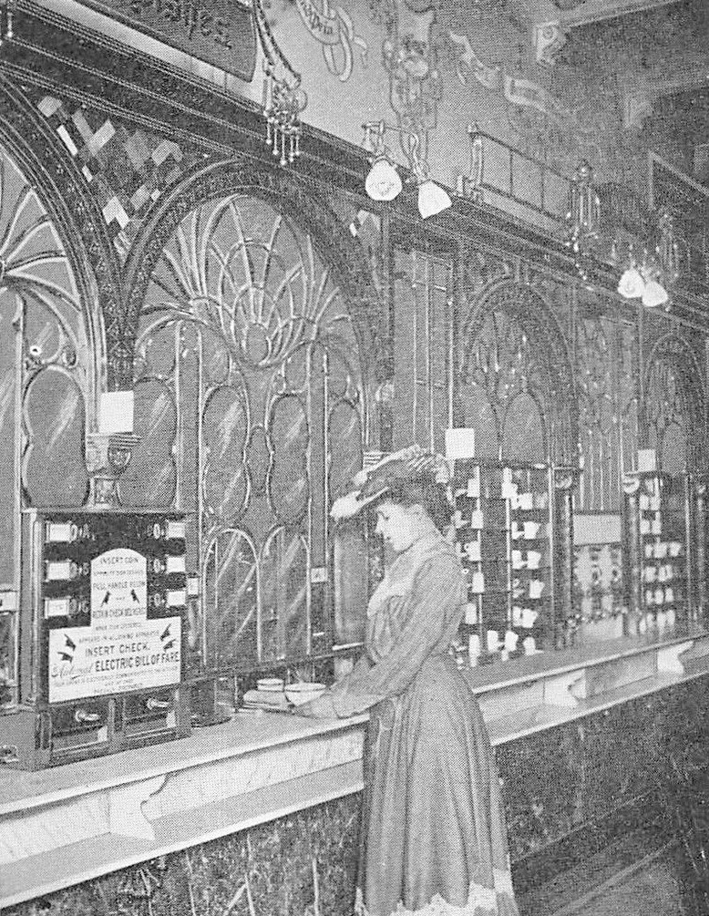 Postcard photo of the Horn and Hardart automat in New York on Broadway circa turn of the century. The woman pictured is getting coffee. Note the "electric bill of fare" machine at left where coins were inserted.